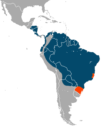 Giant Anteater (Myrmecophaga tridactyla) range (blue — extant, orange — possibly extinct)